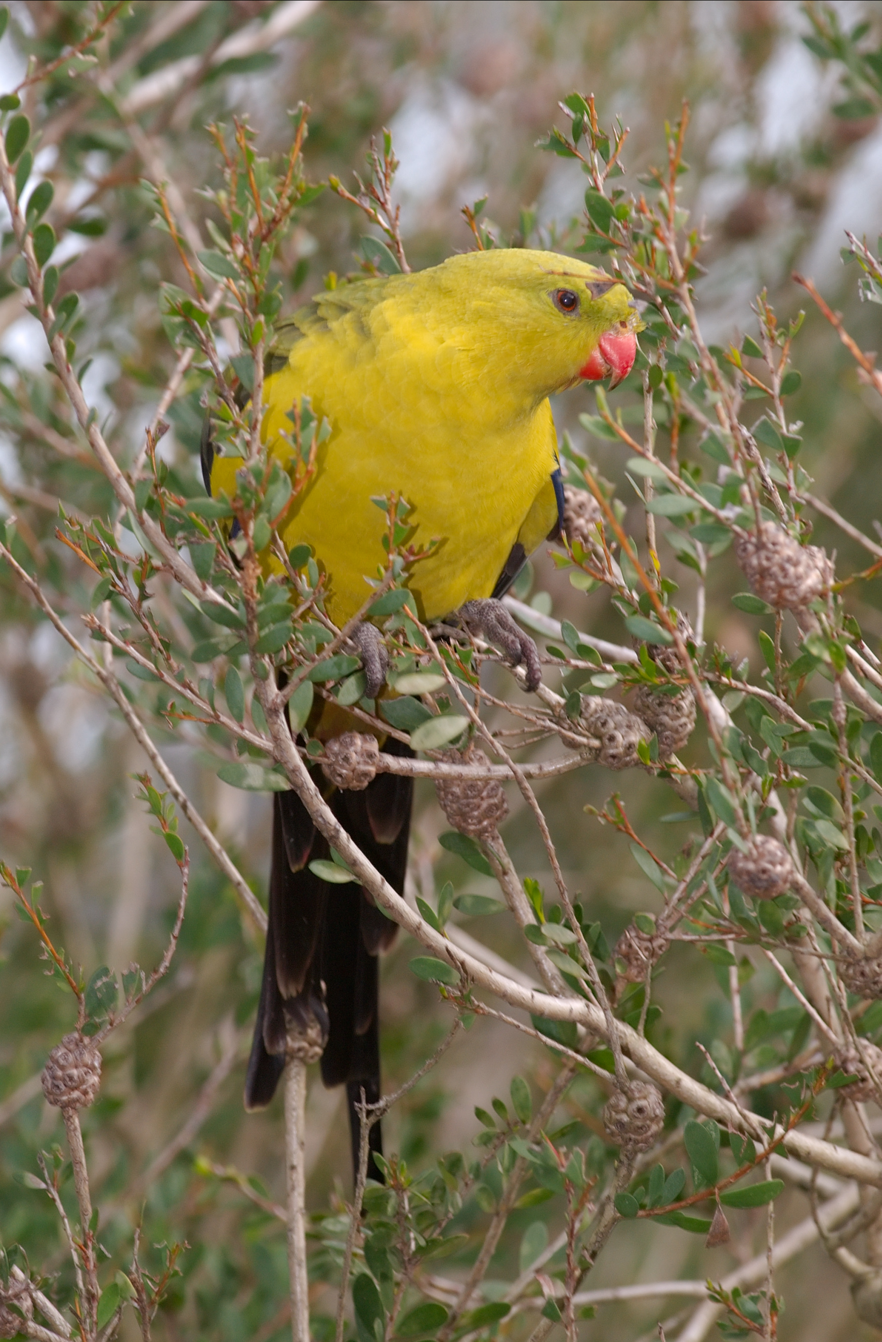 A male Regent Parrot at Cleland Wildlife Park, near Mount Lofty, Adelaide, South Australia.